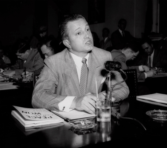 Film director Edward Dmytryk, a member of the Hollywood Ten, answers questions before the House Committee on Un-American Activities in this April 25, 1951 file photo made in Washington.